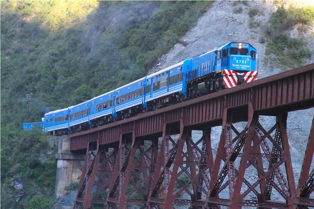 Argentine Tren a las Nubes during its first trip after service had been suspended. Locomotive and coaches are painted in State-owned "Trenes Argentinos" corporate colors.